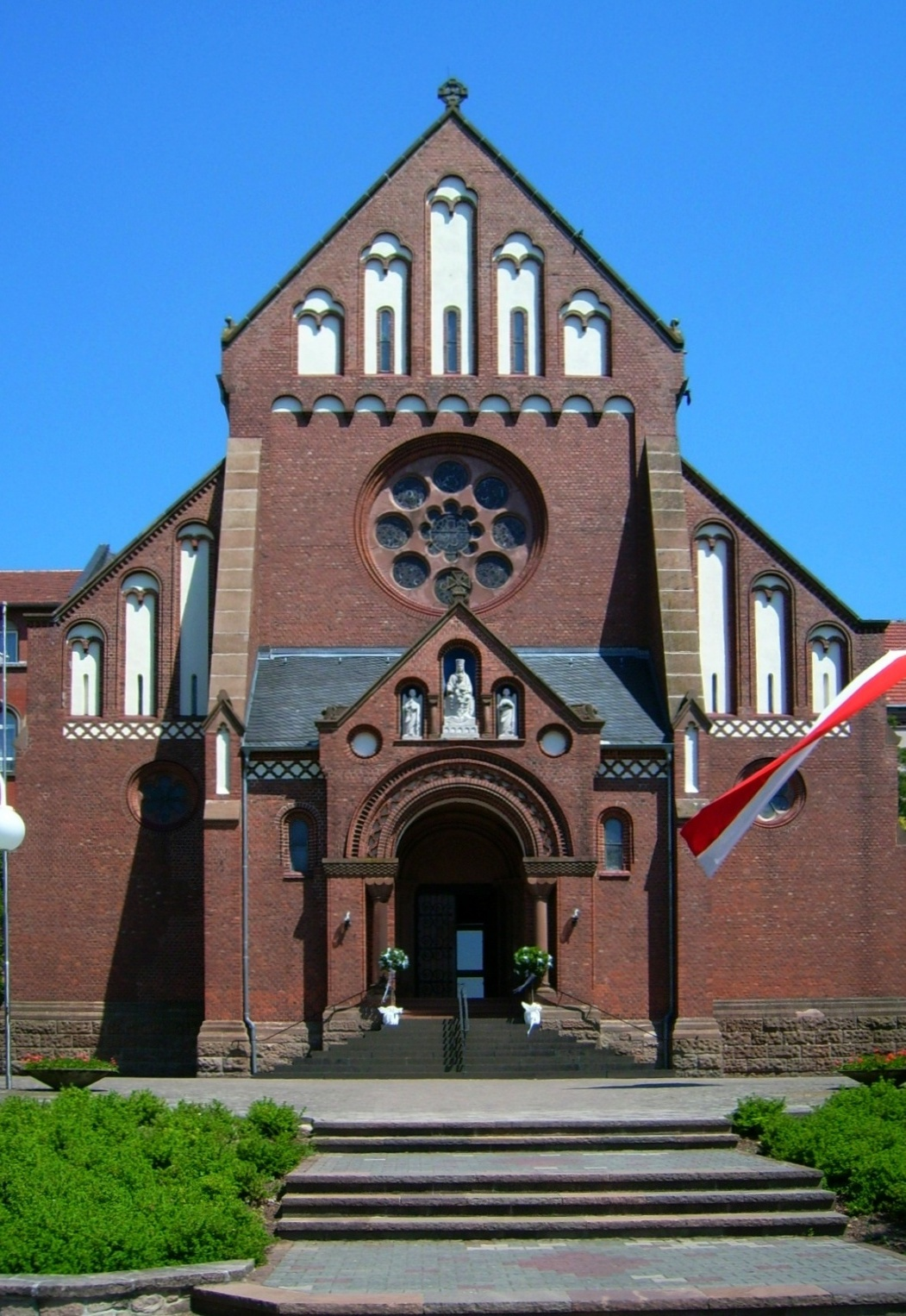 Church of monastery St. Wendel in St. Wendel, Germany